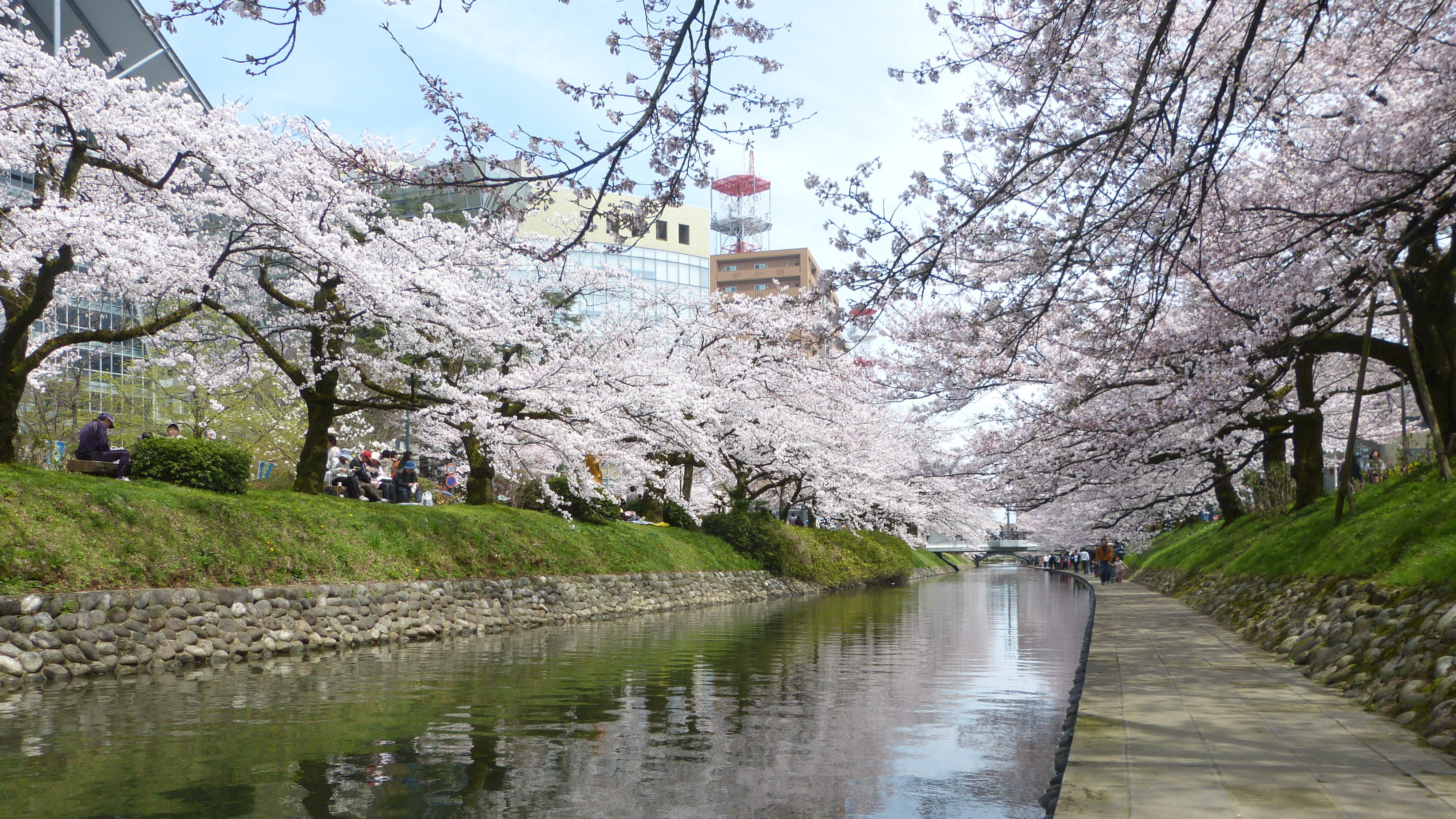 Cherry trees in Matsukawa park (Japan's Top 100 famous place of cherry trees) ,Toyama prefecture,Japan